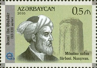 The 80th Anniversary of the Union of Architects of Azerbaijan. N 1247 - 50 qapik. There are pictured Ajami ibn Abubakr and mausoleum of Momina Khatun in Nakhichevan on the stamps.